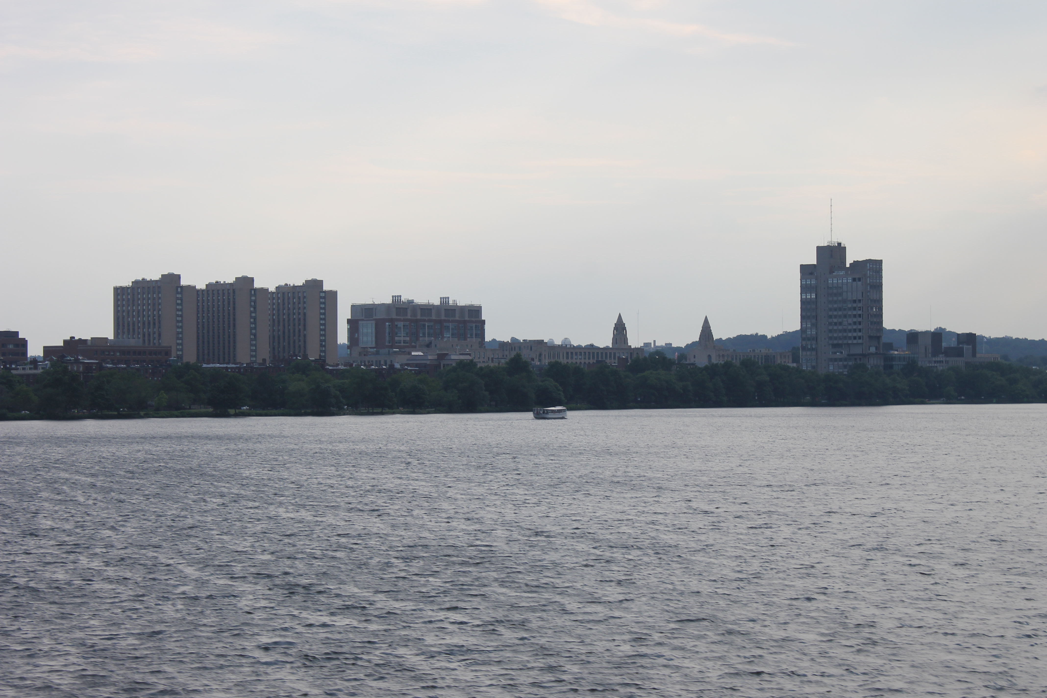 BU's Charles River Campus viewed from across the Charles River Basin. Warren Towers, the Photonics Center, the College of Arts and Sciences, and the Law Tower are visible.